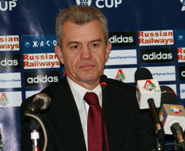 Javier Aguirre